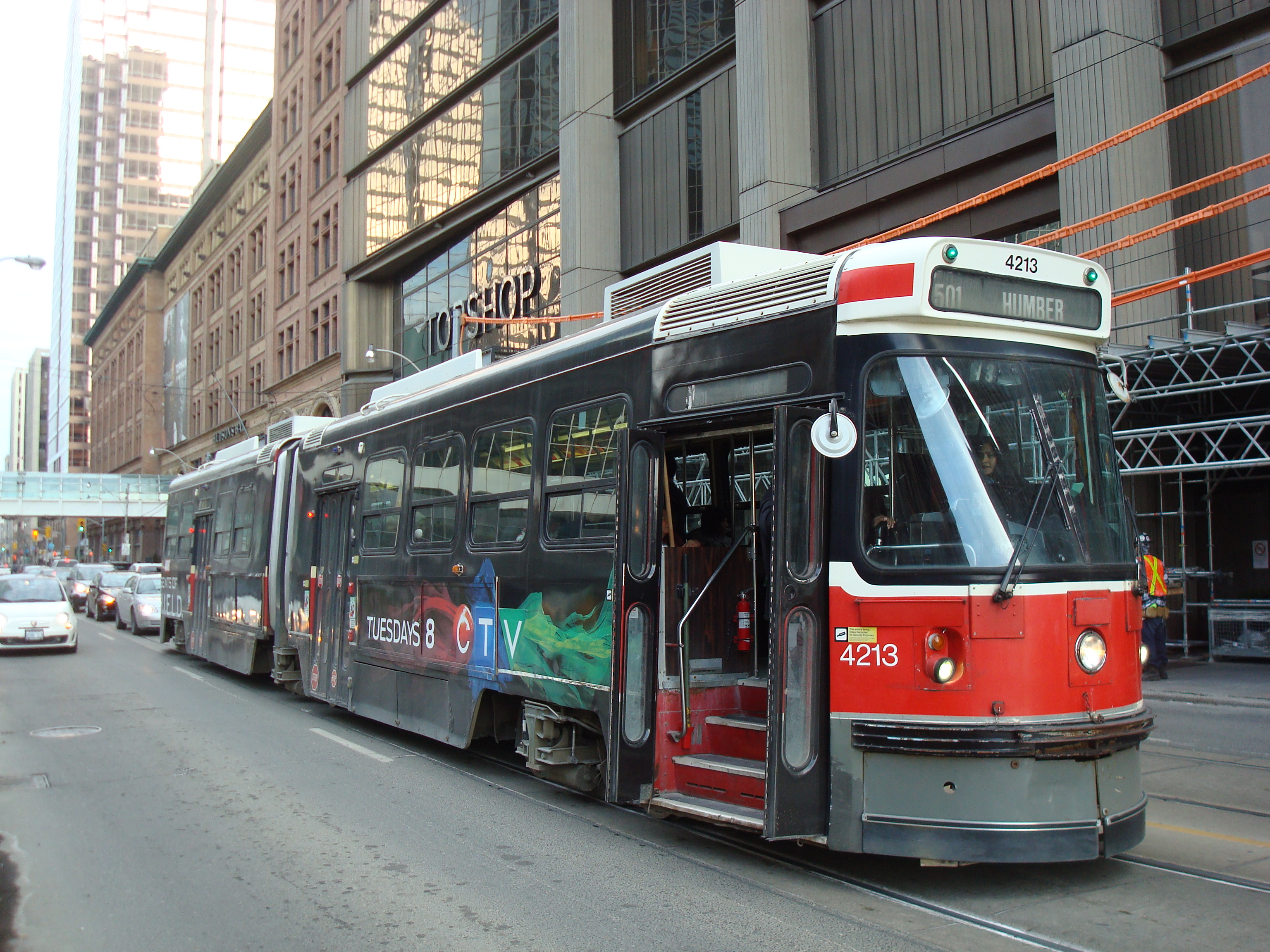 A streetcar (TTC ALRV 4213) is seen headed westbound on Queen Street passing the historic Hudson's Bay Company Queen St. building on November 30, 2013. Note the wrap for the ABC series Agents of S.H.I.E.L.D.